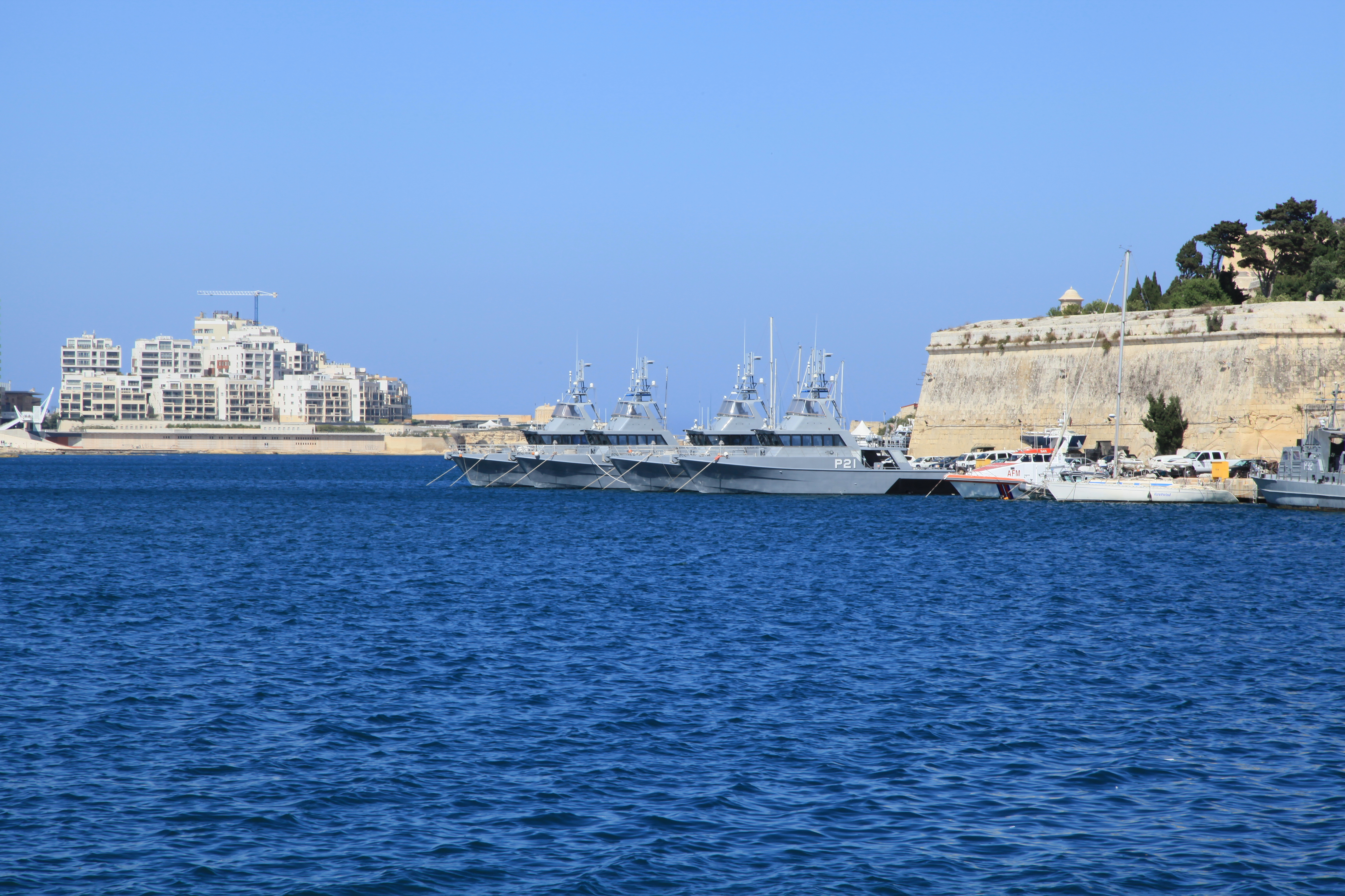 View from Xatt it-Tiben in Floriana to the Tigné Point in Sliema, Malta